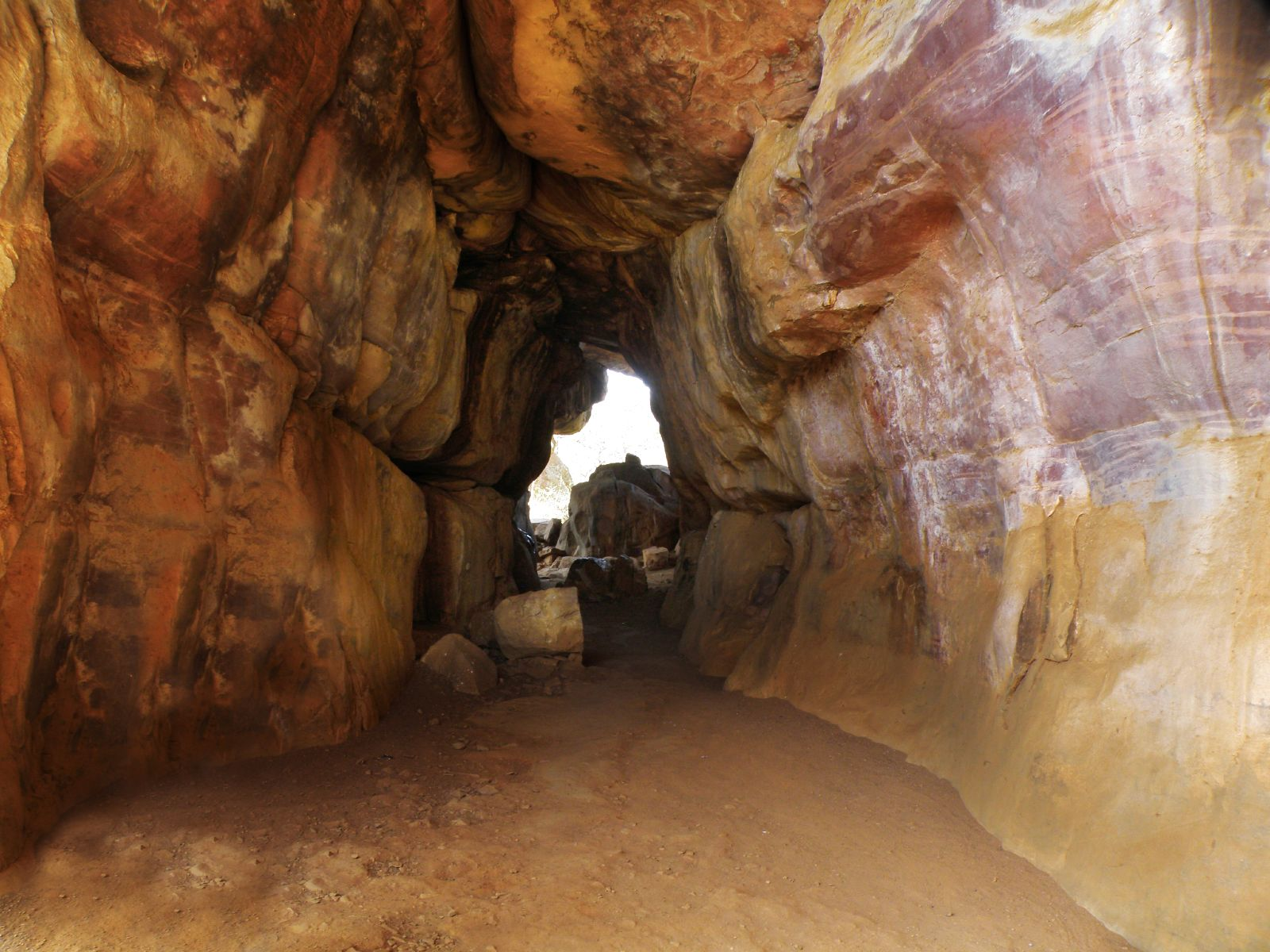 Bhimbetka rock shelters: The paintings found at Bhimbetka Caves, MP are about 10000 years old. A five or six thousand years old skeleton was also unearthed during the excavation of this site. It is also said that Pandavas, during theie exile stopped here and made this place their home for some time. Above: This is the largest cave at Bhimbetka. This is believed to be the assembly hall of the community that lived here and the leader addressed the group from that rock at the end of the hall. All formations here are natural. From the state of the rocks found here, it is thought that this whole area must have been under water for a while. Tip for people who may want to go there: There are guides available from the Madhya Pradesh State Department of Tourism at that site. Be careful though. Those guys would probably show you only a small part of that area and not the whole place. In case you want to see all the paintings, do not hesitate to take the lead and wander off into other places which the guide didn't show you(only where the walkways go though; don't wander off into the bushes :P).